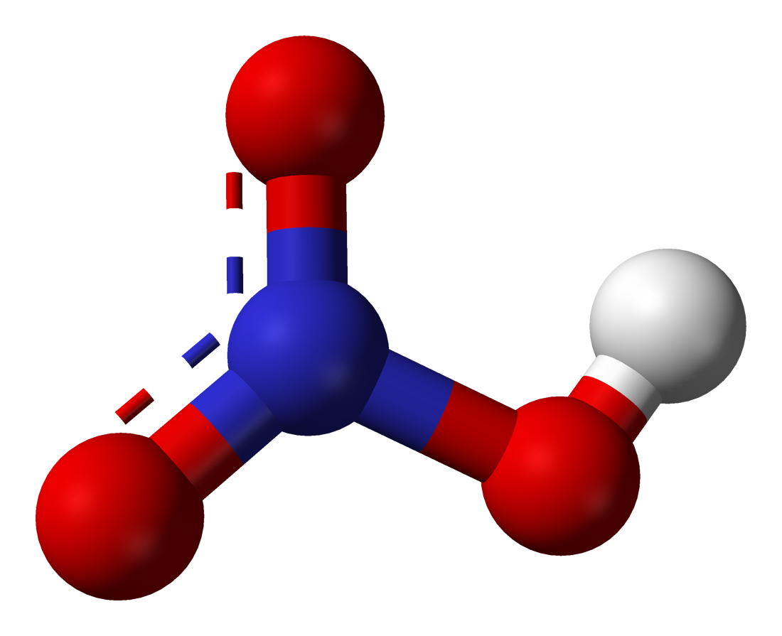 Ball-and-stick model of the nitric acid molecule, HNO3